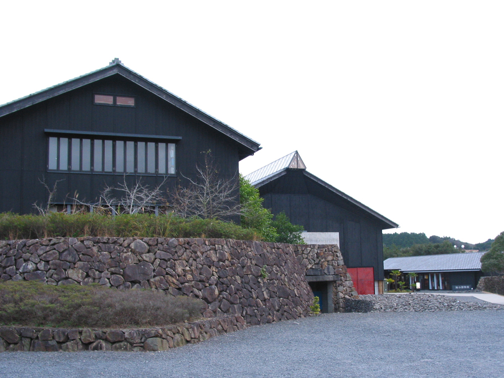 Appearance of the Toba Sea-Folk Museum 三重県鳥羽市にある海の博物館外観